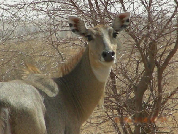 The Nilgai (Boselaphus tragocamelus) is a steppe antelope, which is one of the visible and common wild animals of India. This female Nilgai has been photographed by me in Thar desert, district Jaisalmer, Rajasthan, India. Self work.